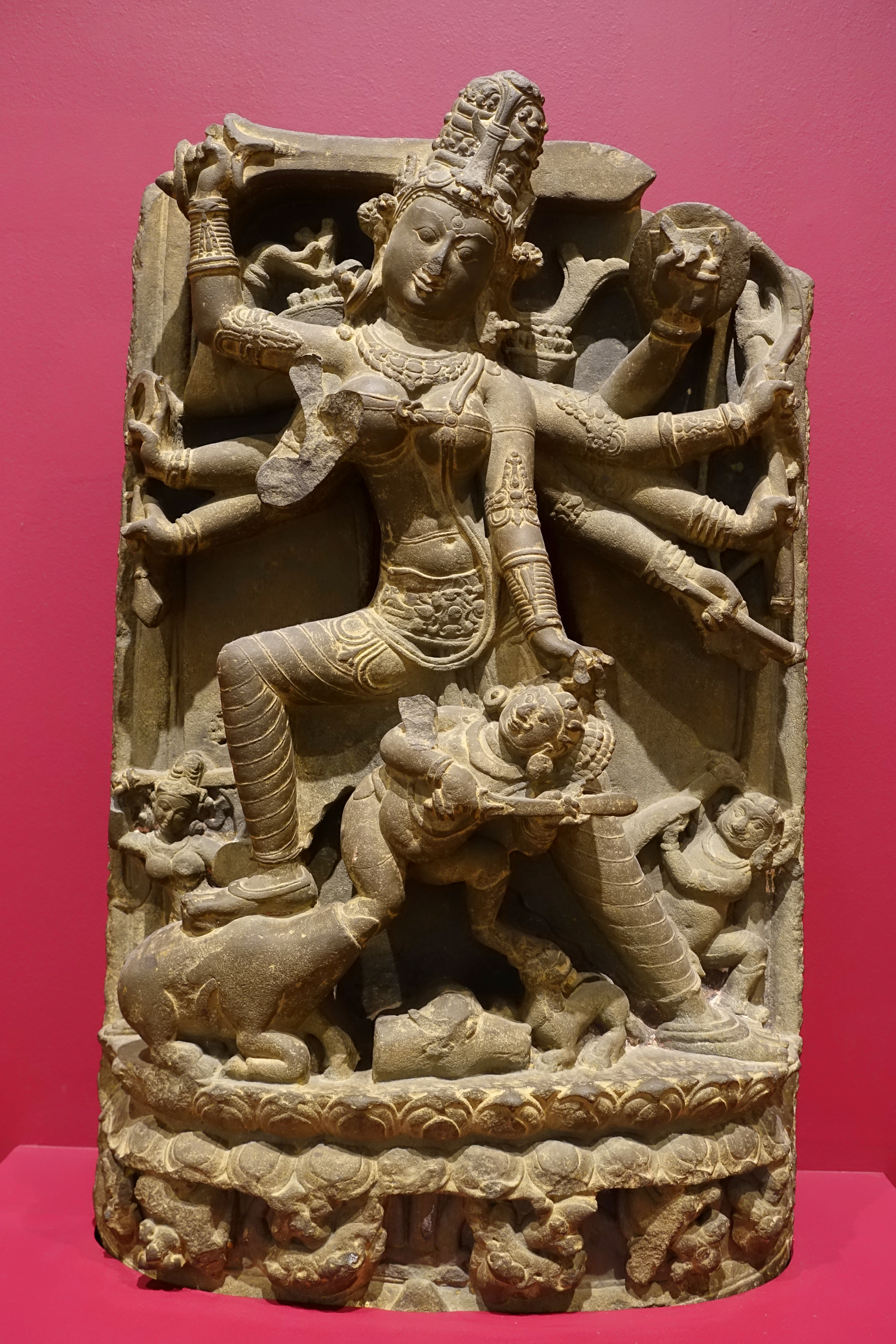 Sculpture from India in the Dallas Museum of Art, Dallas, Texas, USA.